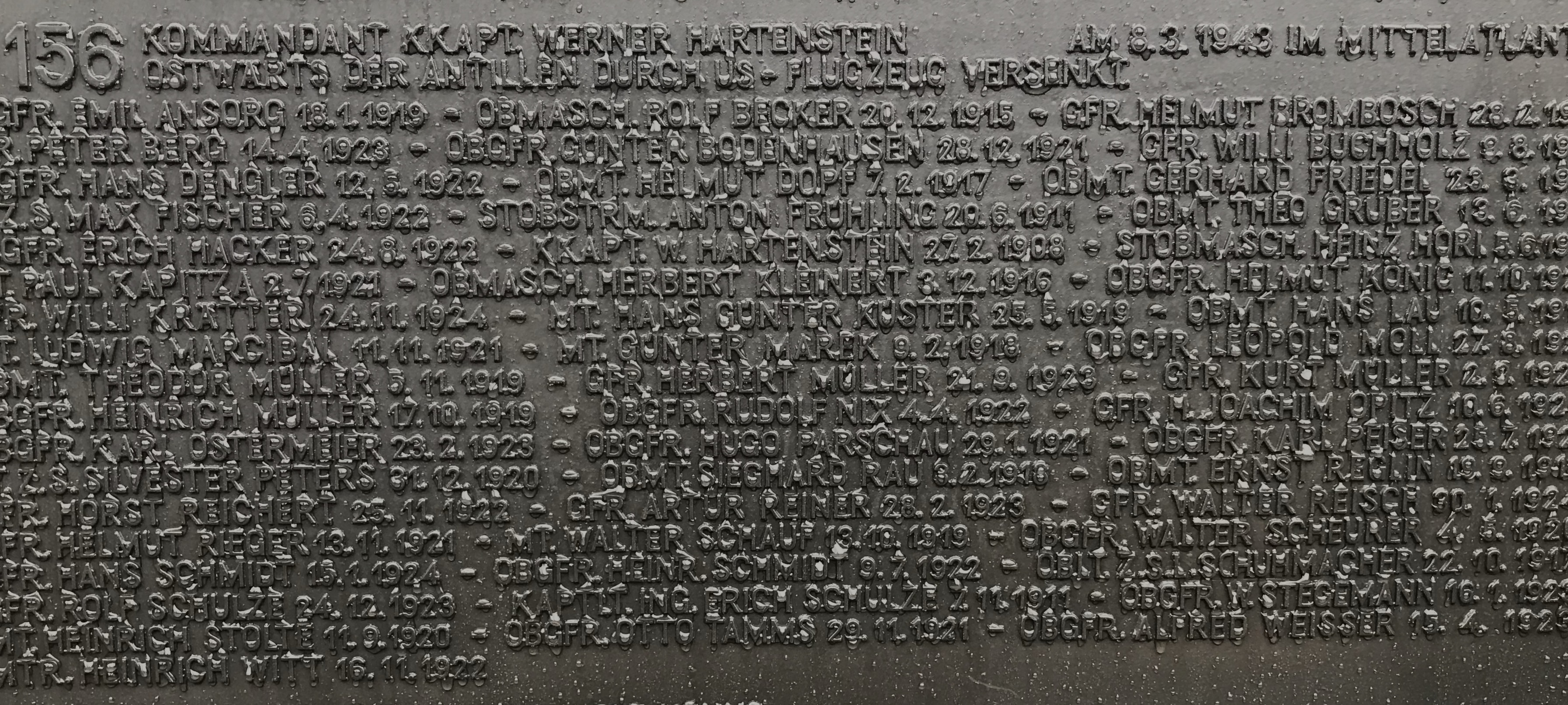 The plaque commemorating Hartenstein and the crew of U-156 at the Möltenort U-Boat Memorial.